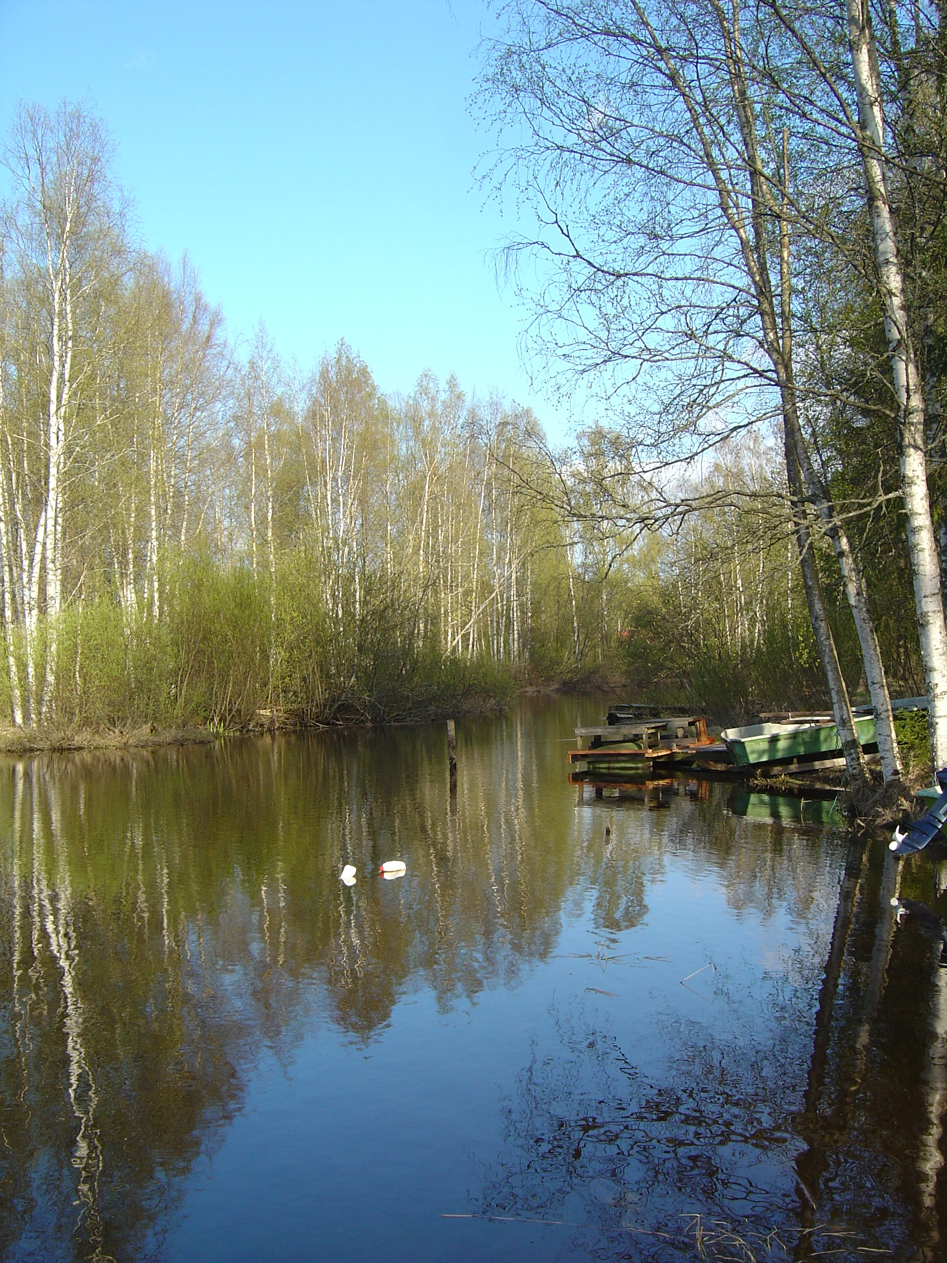 Siilinjoki river in Siilinjärvi, Finland